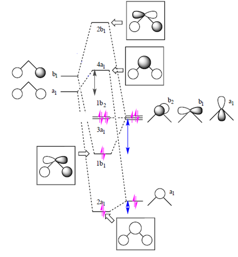 H2O MO